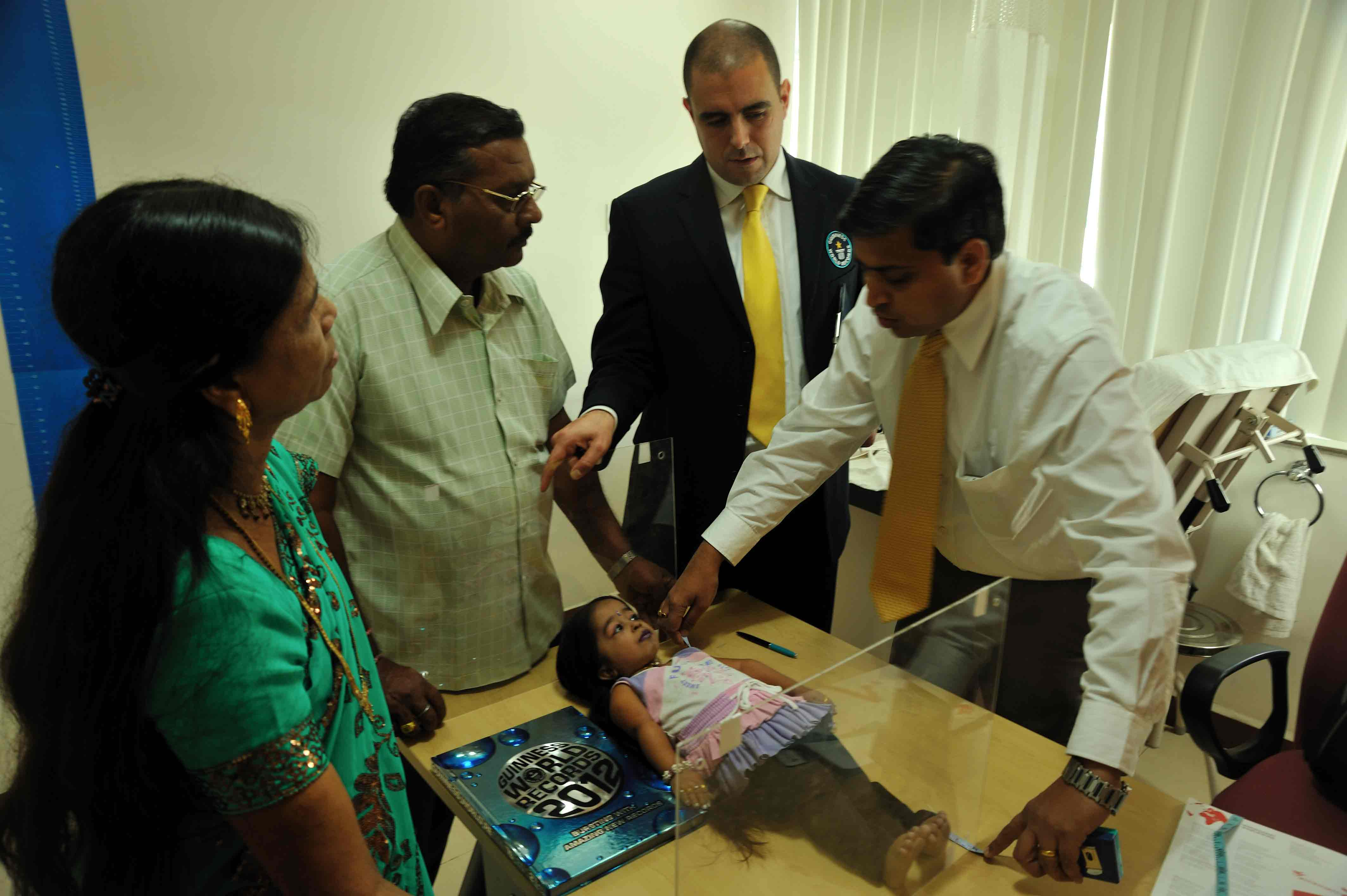 Jyoti Amge, world smallest woman. Guinness official and Dr at the hospital measuring Jyoti for certification as world smallest woman.